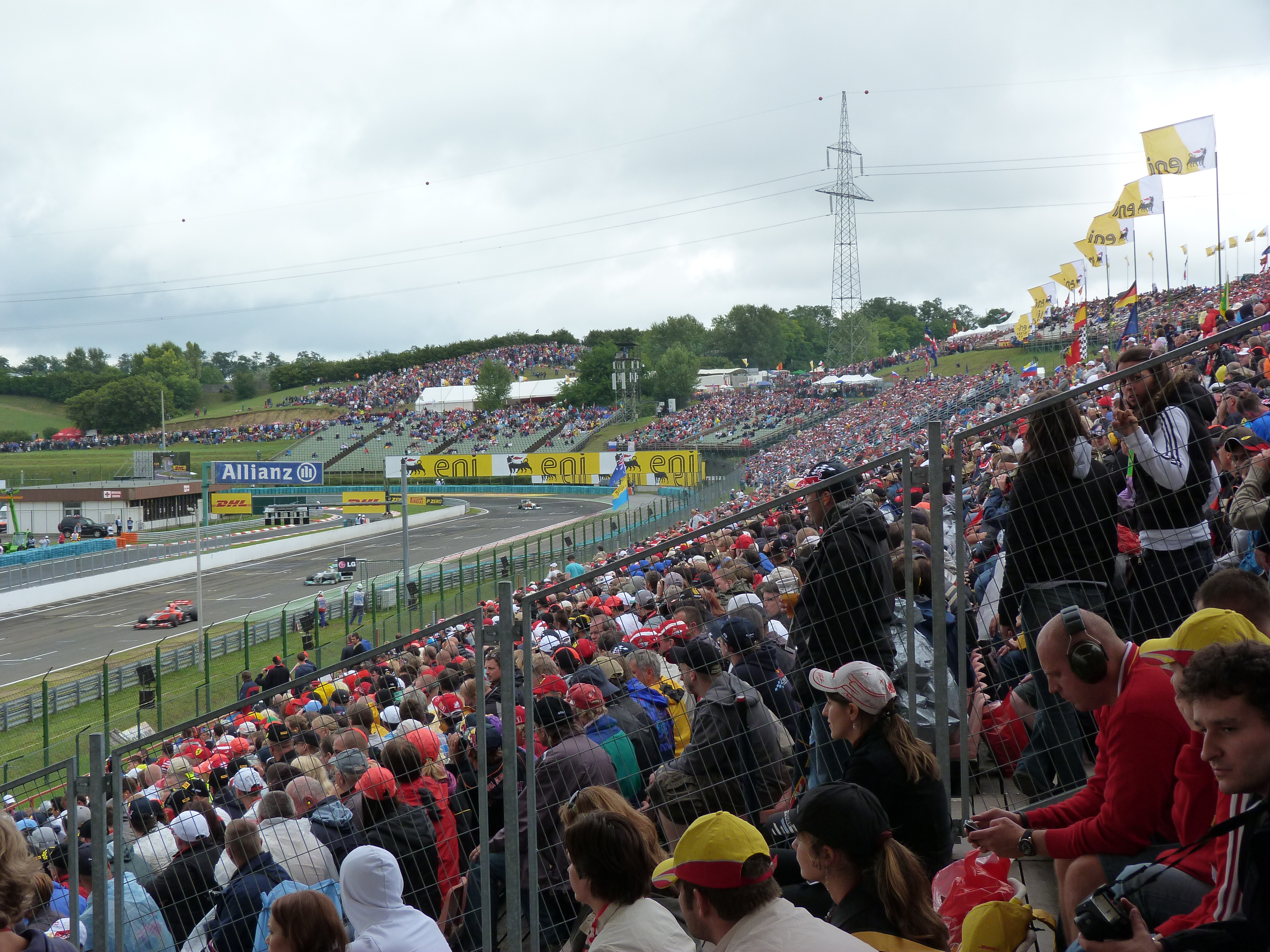 Live on the 31 st of July, 2011. Hungaroring, Mogyoród, Hungary. The 26 th Formula 1 Hungarian Grand Prix started at 2 pm. Special place for Jenson Button: it was here that he took his first Grand Prix win five years ago - and it is here that he has taken victory in his 200th Grand Prix. Red Bull's Sebastian Vettel stretched his commanding lead in the championship with a second-place finish in wet conditions Sunday.